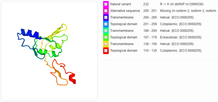 13% coverage from sequence 119 to 267